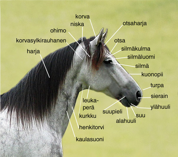 A grey horse head with structural parts added in Finnish